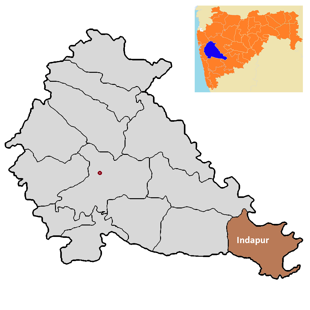 Indapur tehsil in Pune district